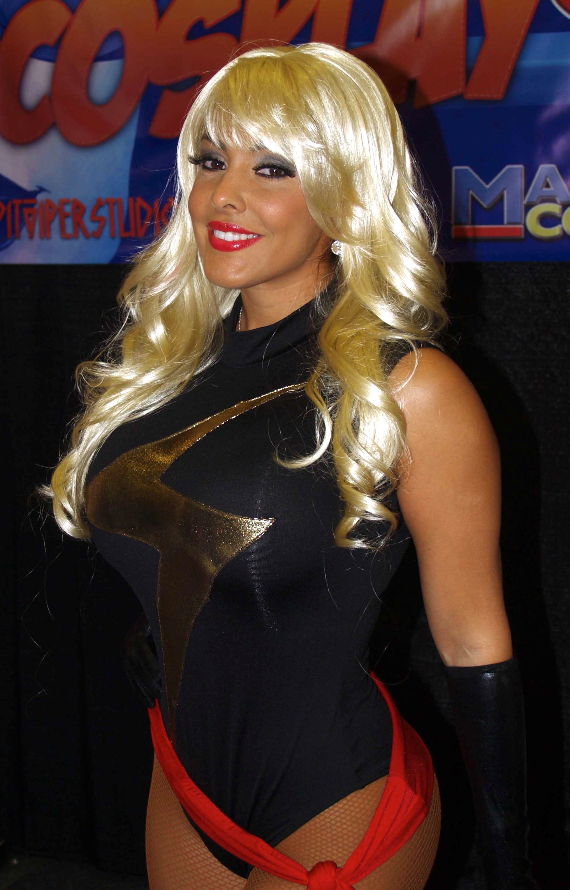 Former adult film actress Nina Mercedez, cosplaying as comics character Ms. Marvel, at the booth at the 2013 Wizard World New York Experience Comic Con at Pier 36 in Manhattan, June 28, 2013. This photo was created by Luigi Novi. It is not in the public domain, and use of this file outside of the licensing terms is a copyright violation.